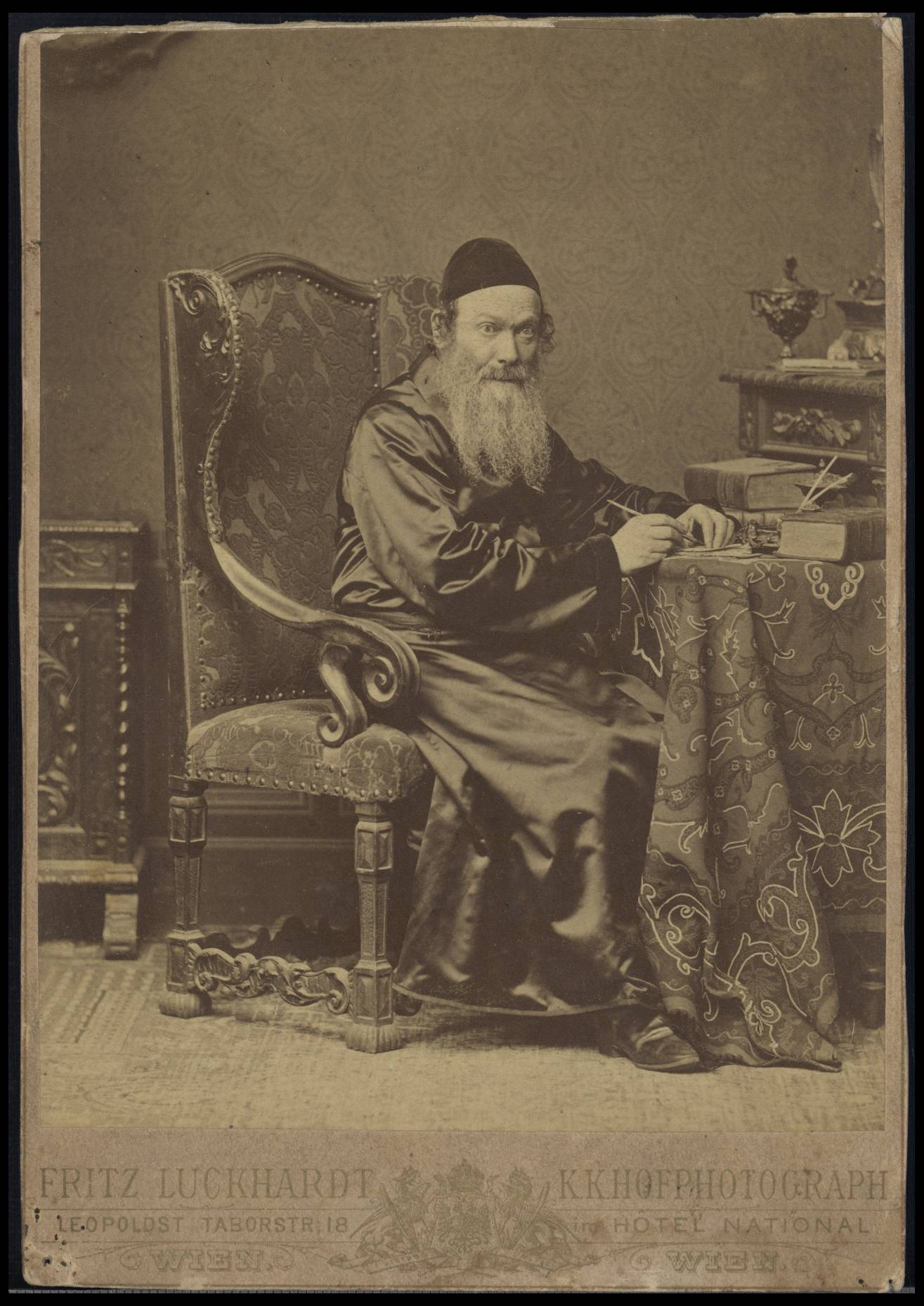 picture of Jacob Gesundheit